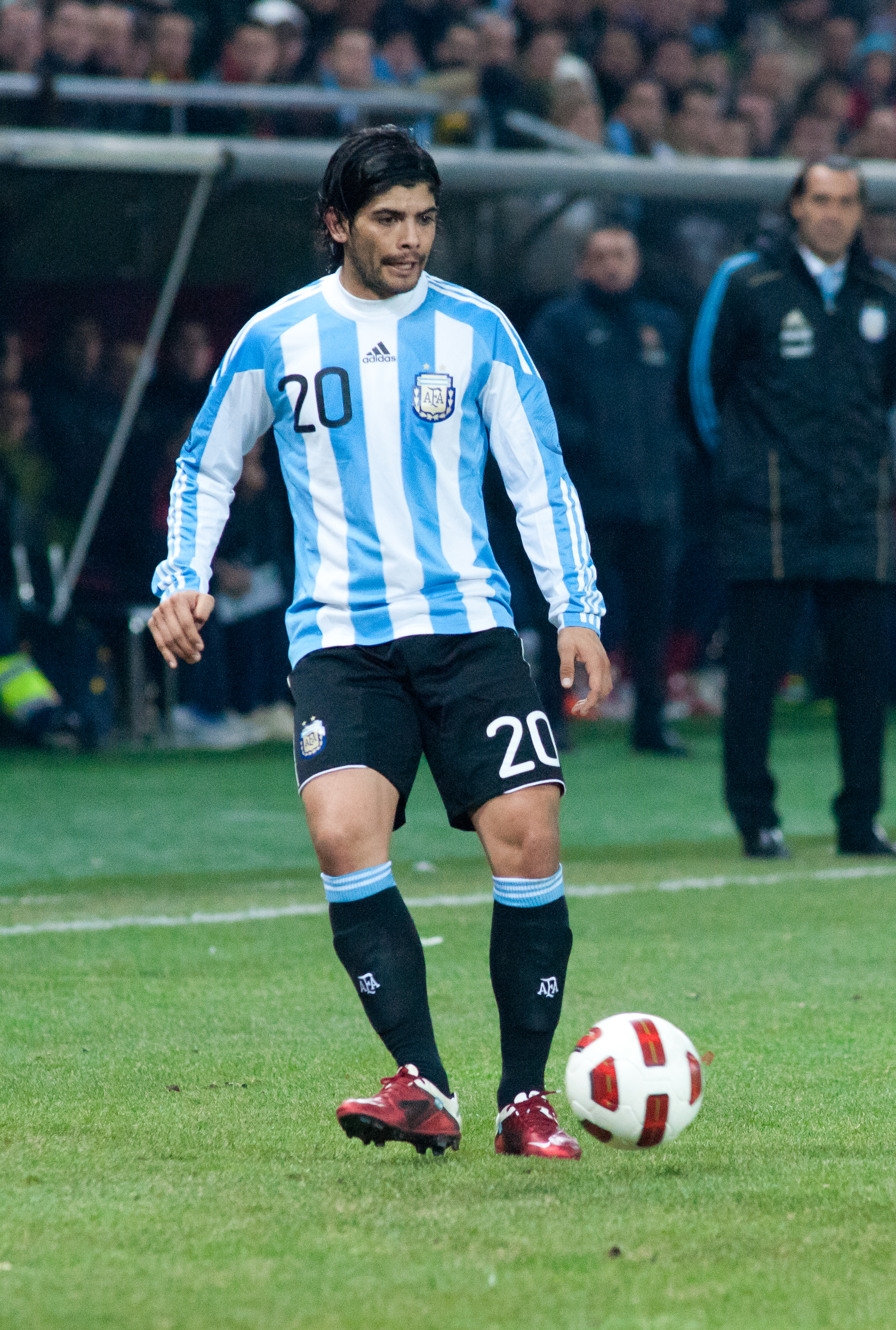 The making of this document was supported by Wikimedia CH. (Submit your project!) For all the files concerned, please see the category Supported by Wikimedia CH. Portugal vs. Argentina, 9th February 2011